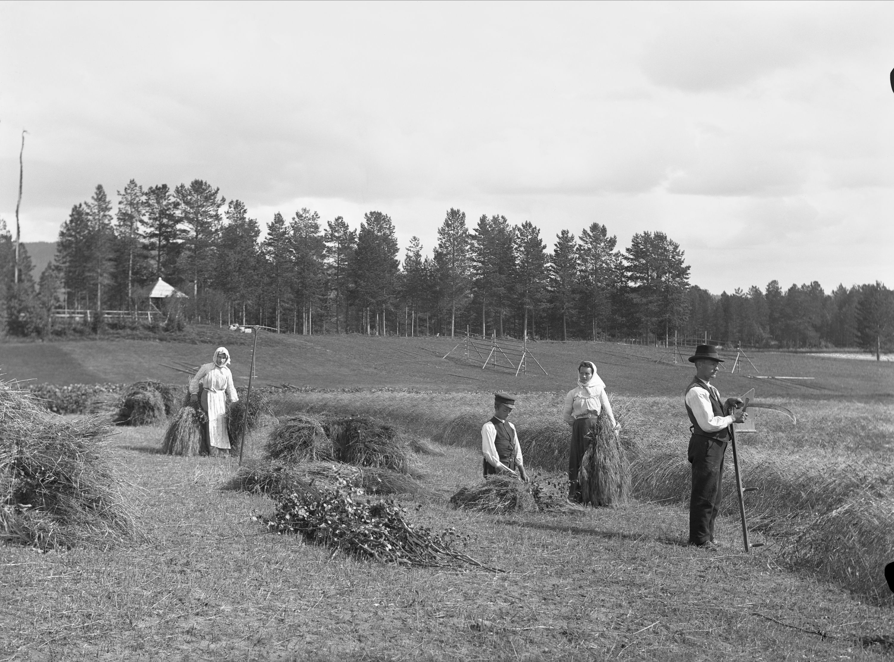 Depicted place: Ångermanland, Bodum (Sverige (SE))